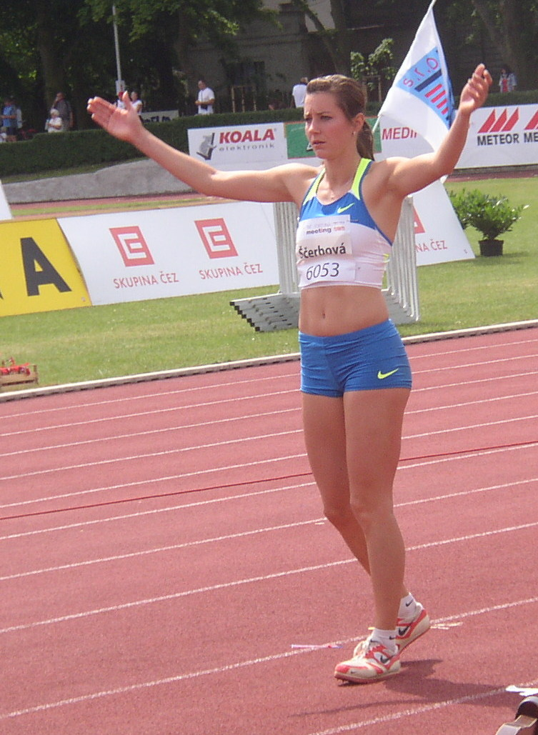 Czech athlete Denisa Ščerbová asking spectators for support before an attempt in long jump at TNT - Fortuna Meeting heptathlon in Kladno, June 19, 2008.